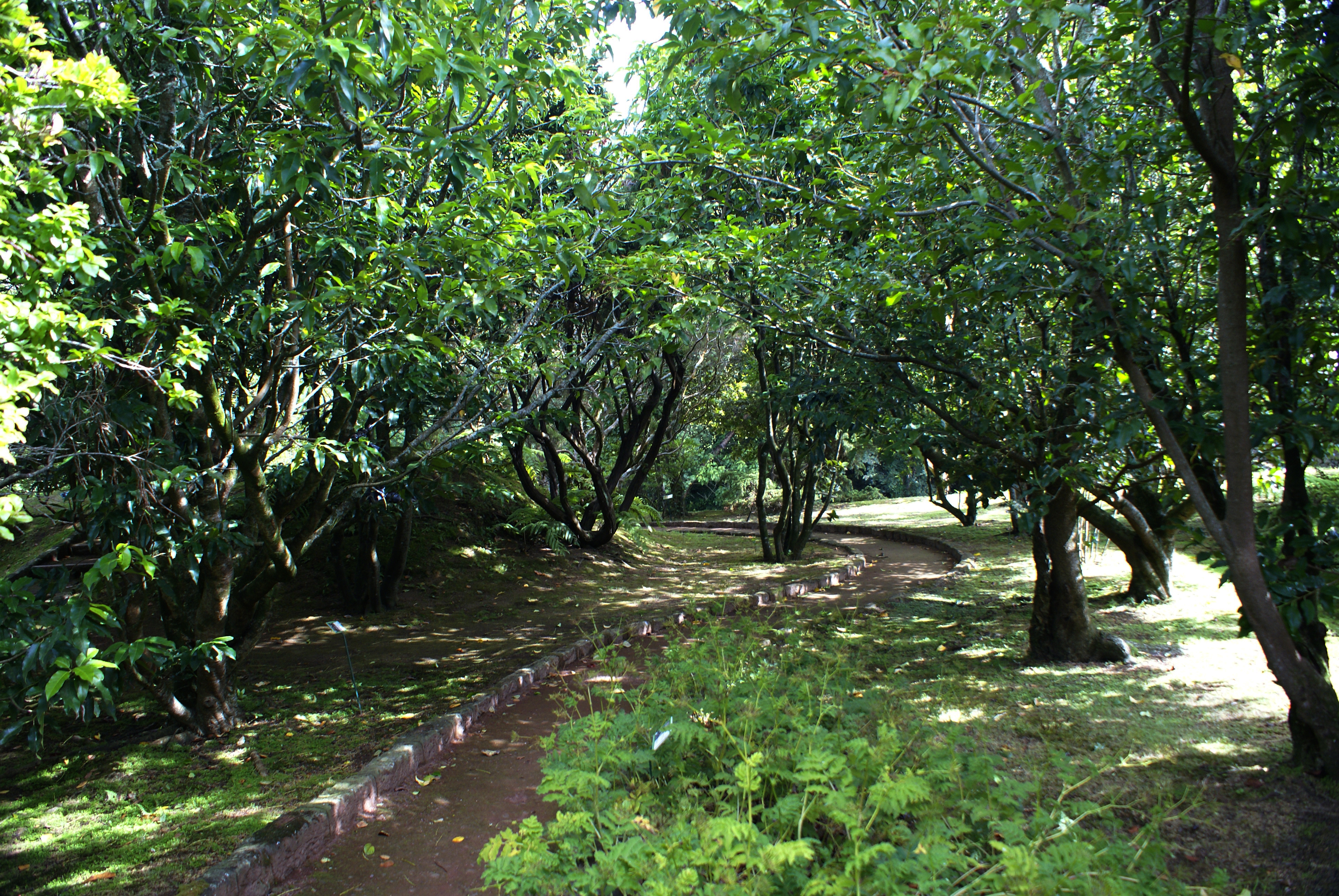 Jardim Botânico do Faial, 3 concelho da Horta, ilha do Faial, Açores, Portugal